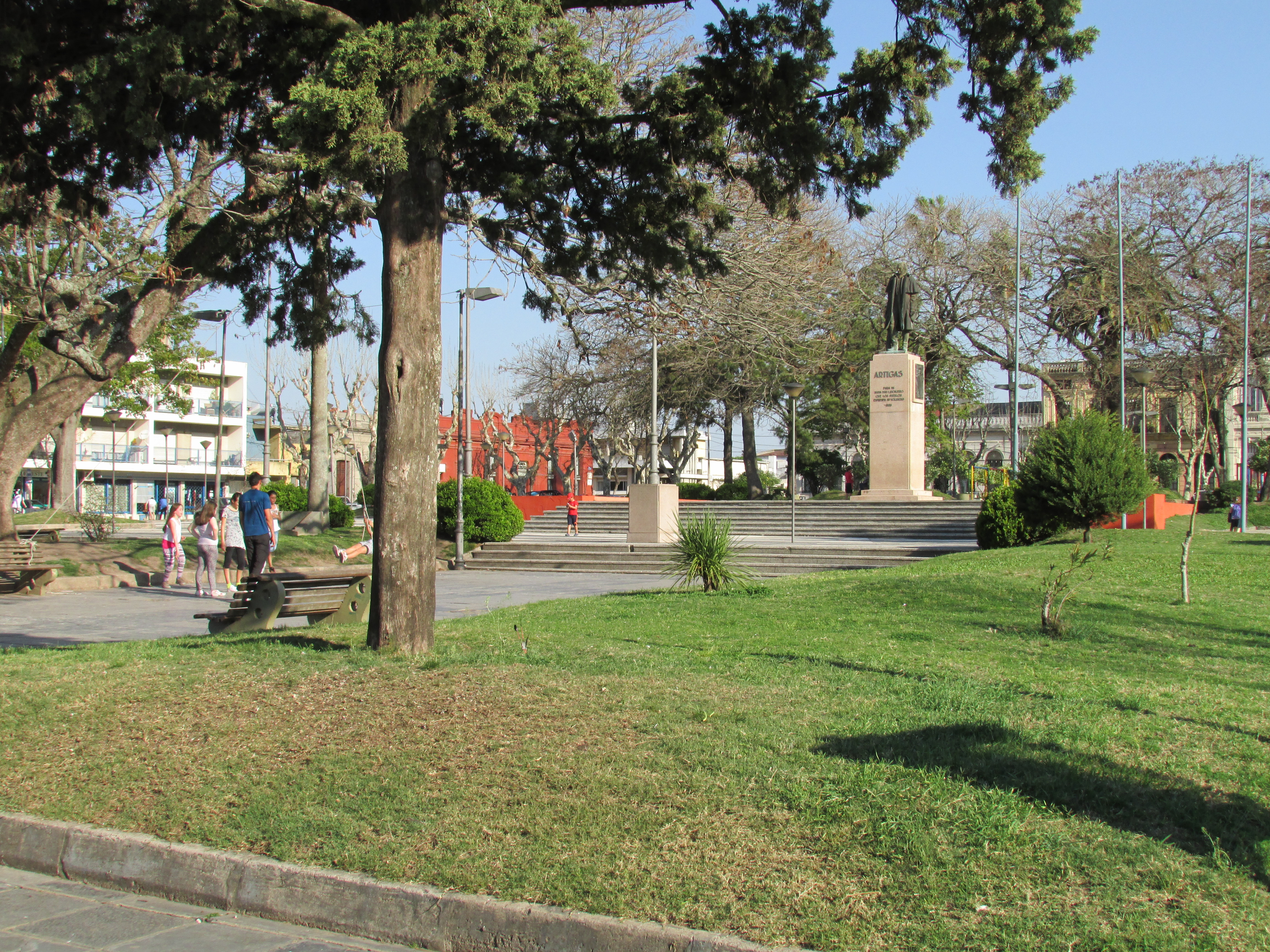 Monument of Artigas, located at Constitución square in Melo, Cerro Largo, Uruguay - View of the square and the statue's position in it